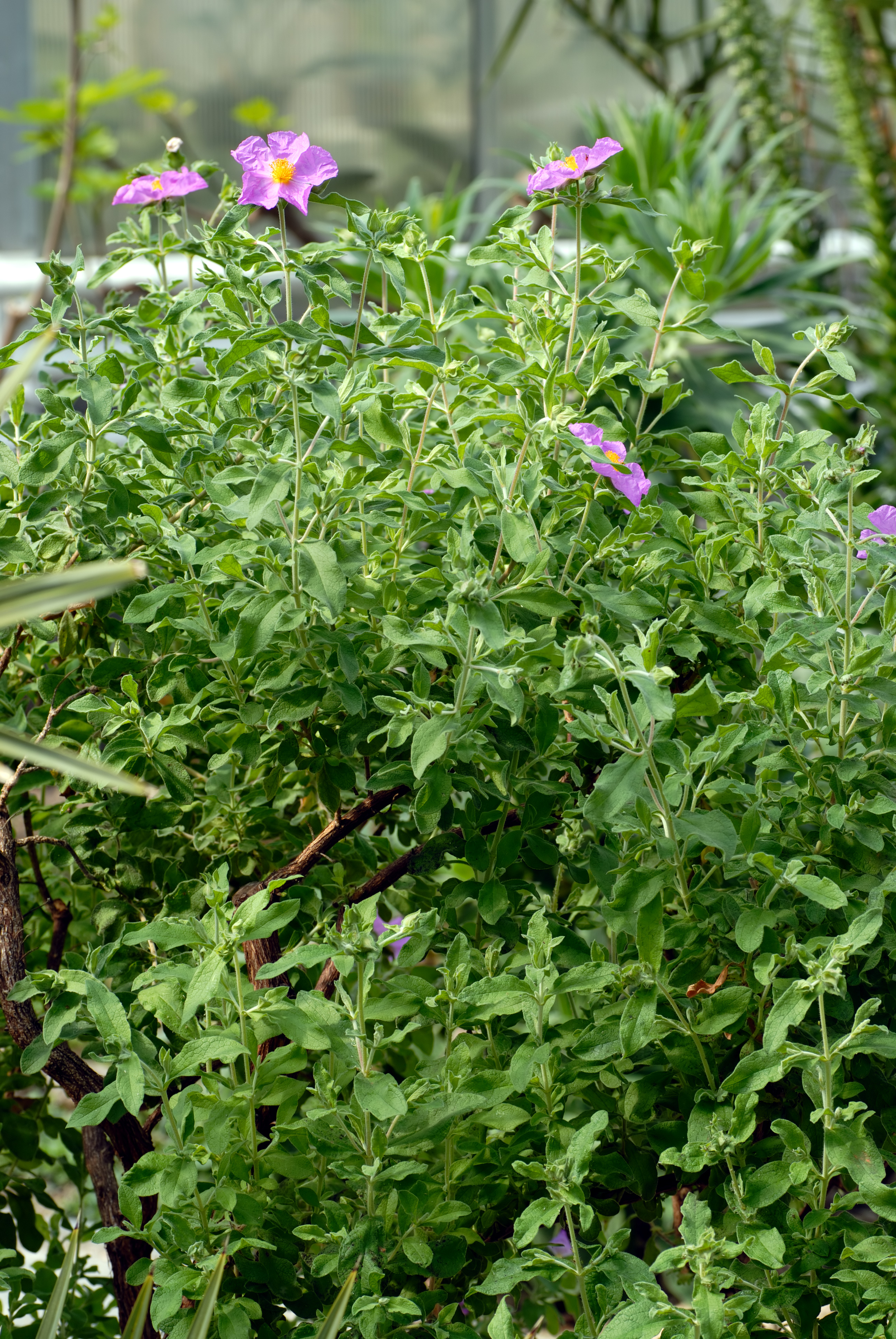 This image shows a few Grey-haired Rockroses (Cistus creticus).